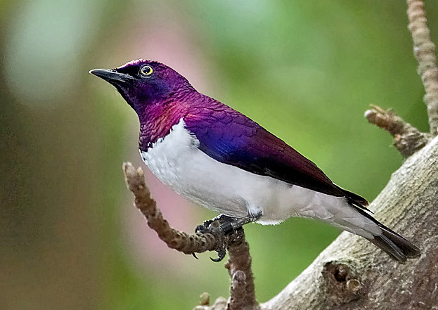 Violet-backed Starling - male